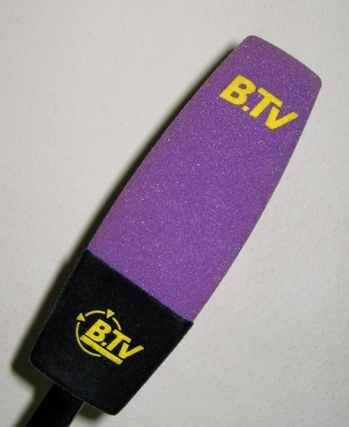 A microphonecoat from B.TV, usual on all outdoor shootings between aprox. 1998 till april 2003.